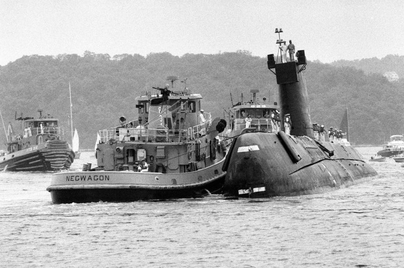 Metacom (YTB-829) (forward of) Negwagon (YTB 834) assist in mooring the nuclear-powered attack submarine ex-USS Nautilus (SSN-571) upon her arrival at pier 33, Naval Submarine Base, New London, 6 July 1985. The submarine will be permanently berthed at the US Navy Submarine Force Museum in Groton, CT. as a memorial. Campti (YTB 816) (left background) stands by. DVIC photo # DNSN8509406 by PH3 Joan Zopf USN.